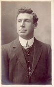 Chris McKivat Australian rugby union player 1908